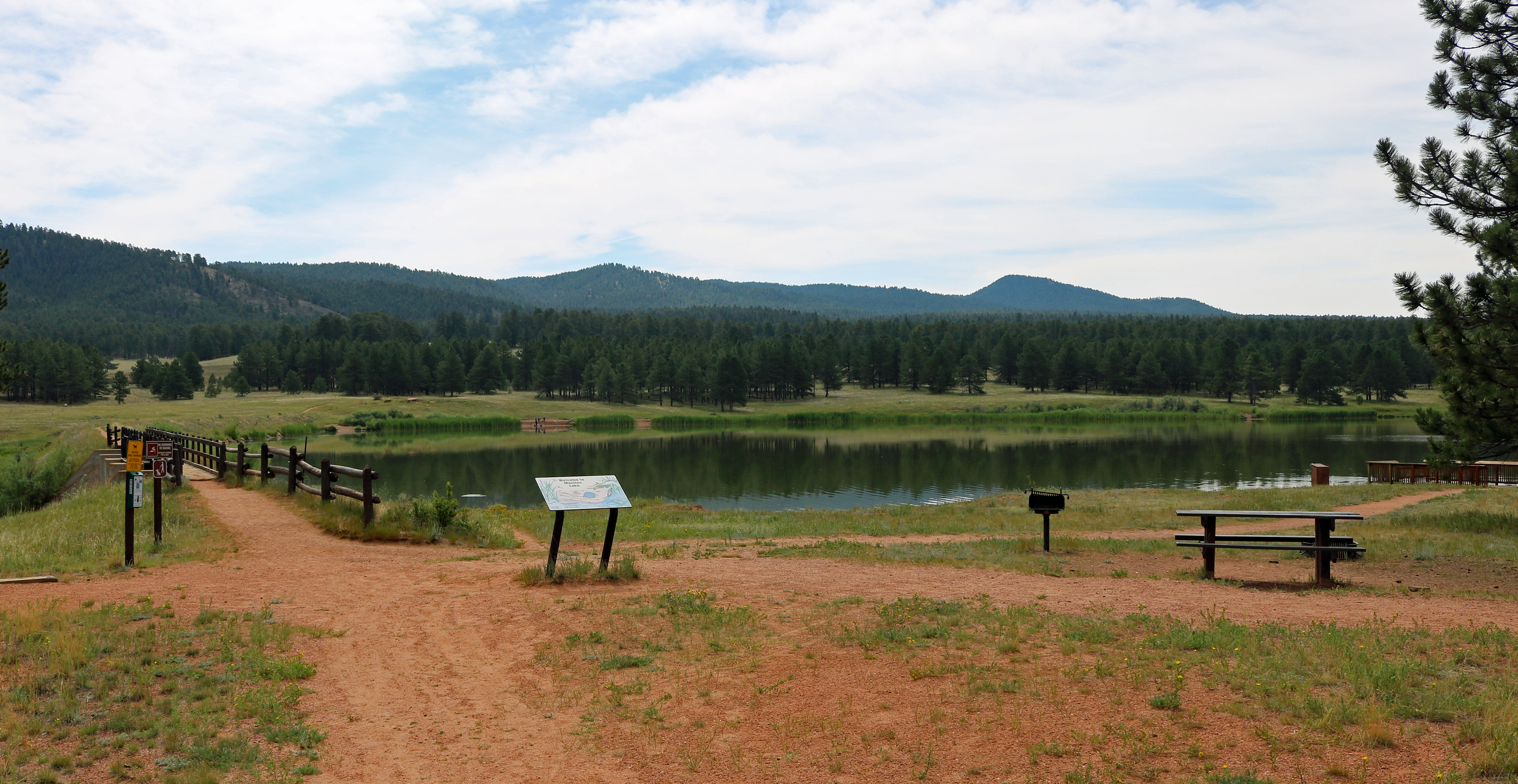 The Manitou Lake Picnic Area. located in the Pike National Forest in Teller County, Colorado. The view shows Manitou Lake (also called Manitou Park Lake), with the dam on the left, and a walkway over the dam.